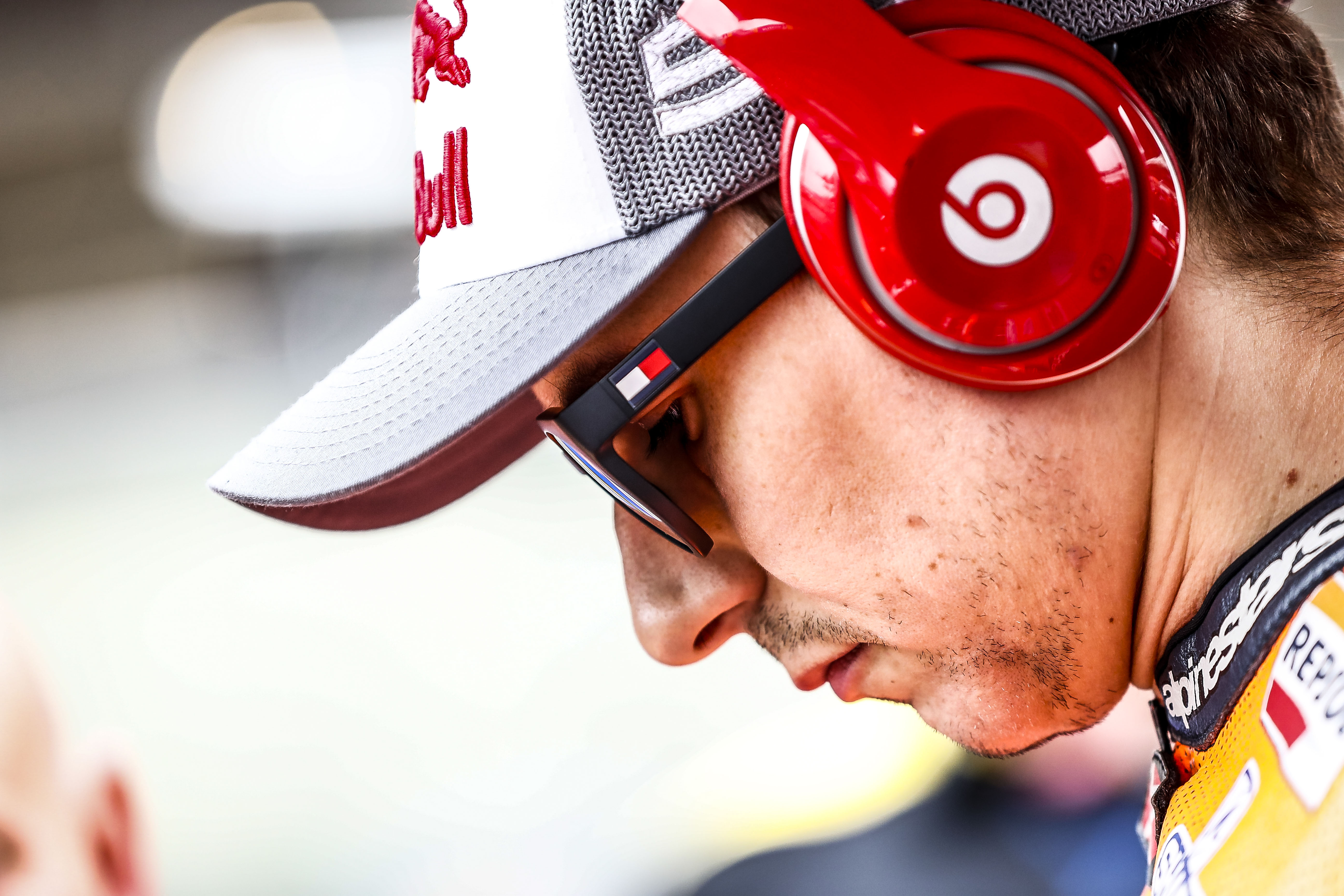 Jorge Lorenzo before the start of the 2019 French Grand Prix.